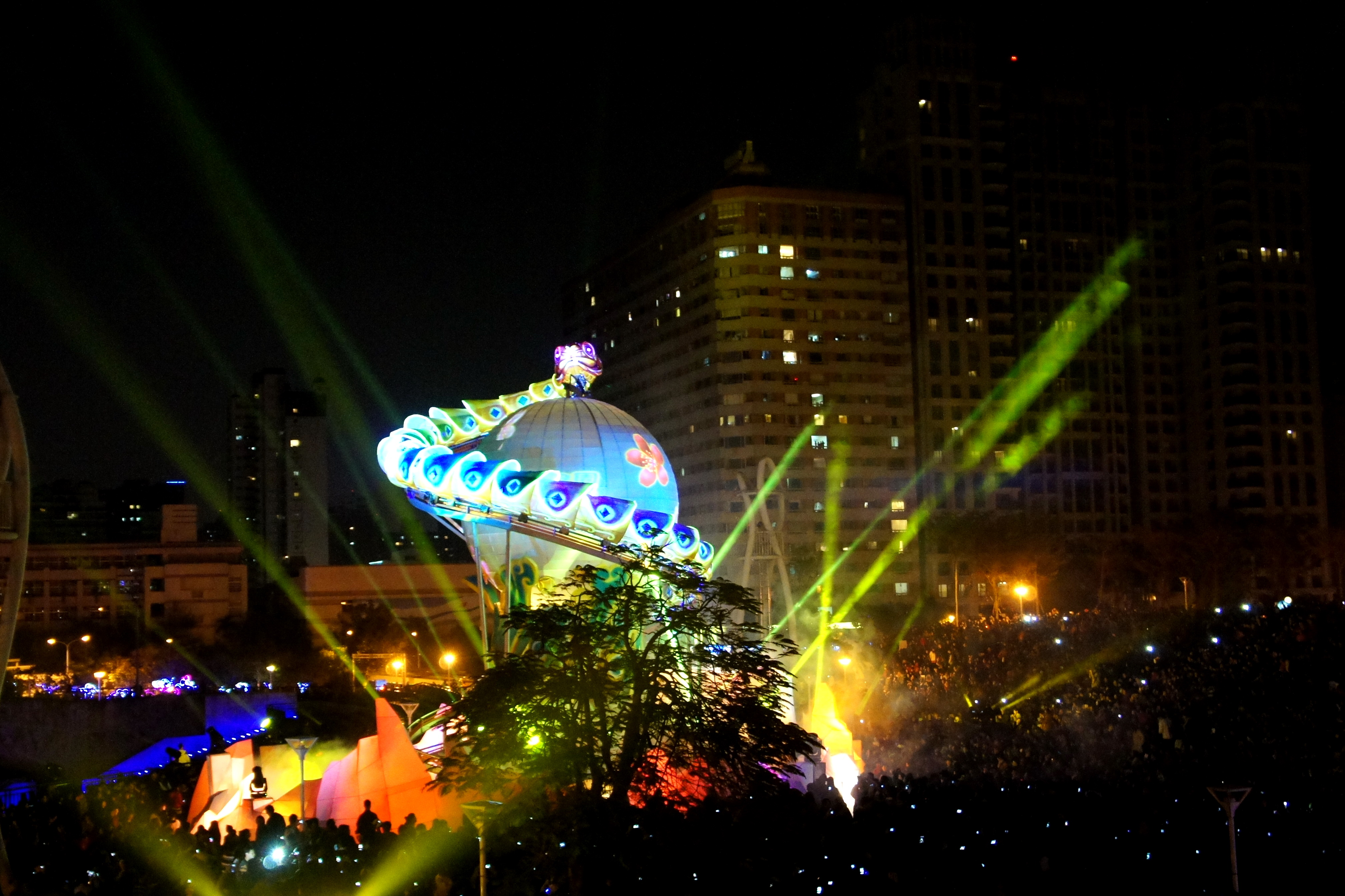 Central Taiwan Lantern Festival 2013 (Feature lantern - the Guardian Snake) at the Wen-Hsin Forest Park, Taichung, Taiwan.